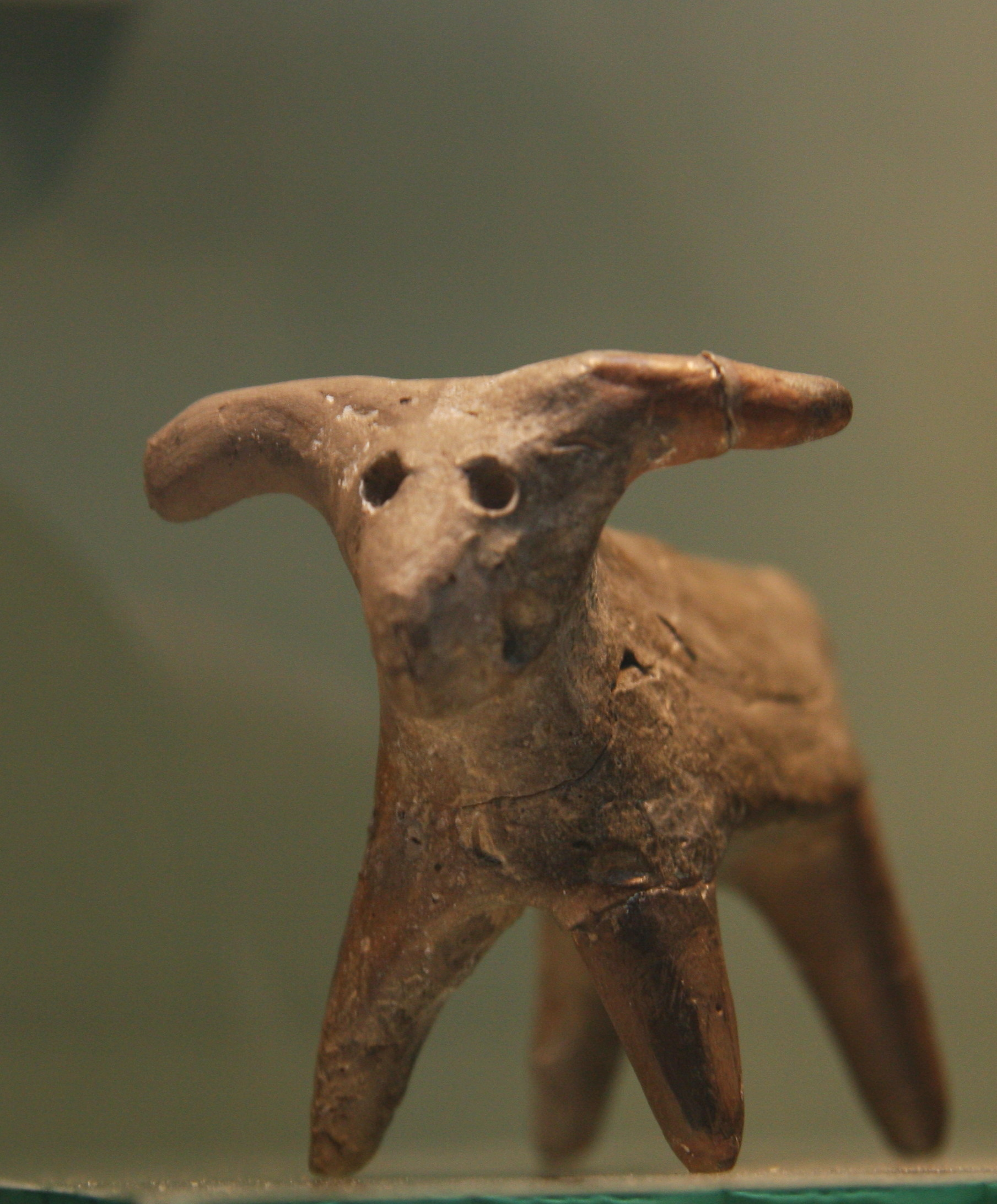 Zoomorphic Clay figure in Cucuteni Culture